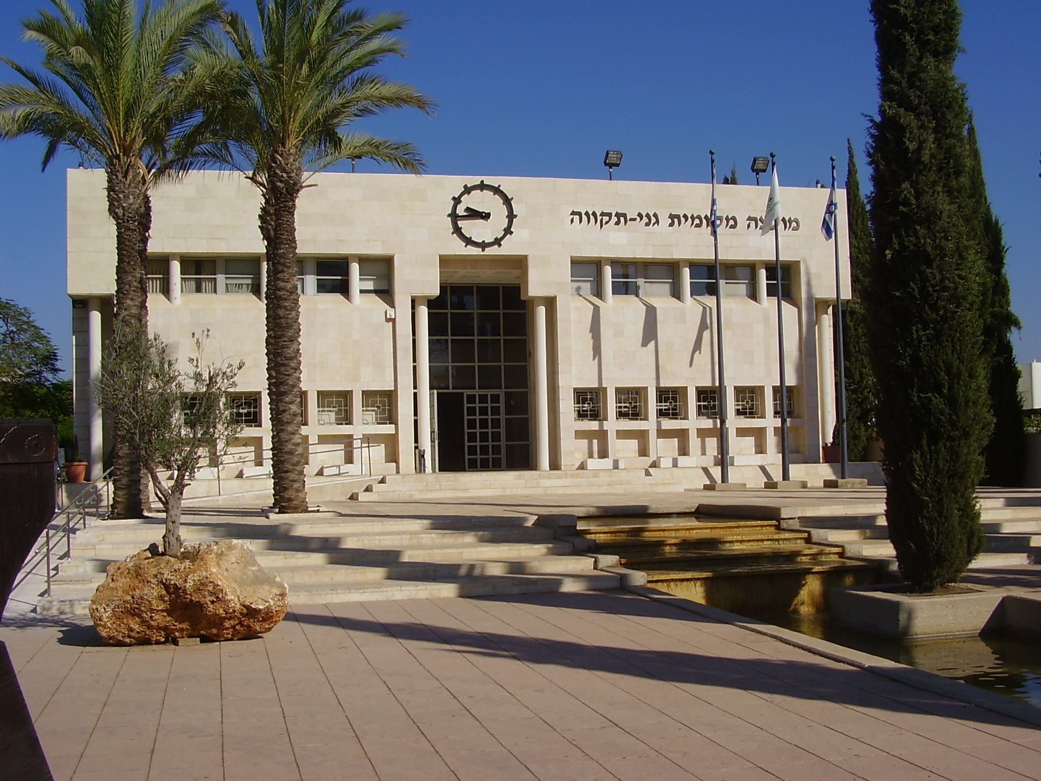 Ganey Tikva local council